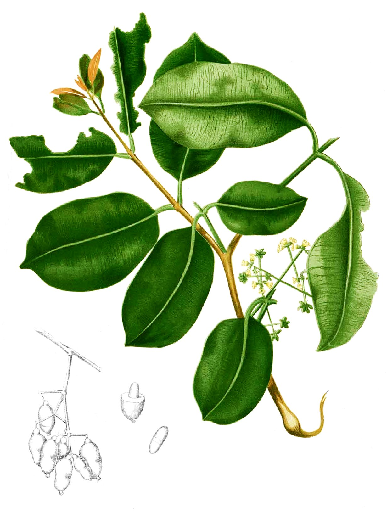 Plate from book